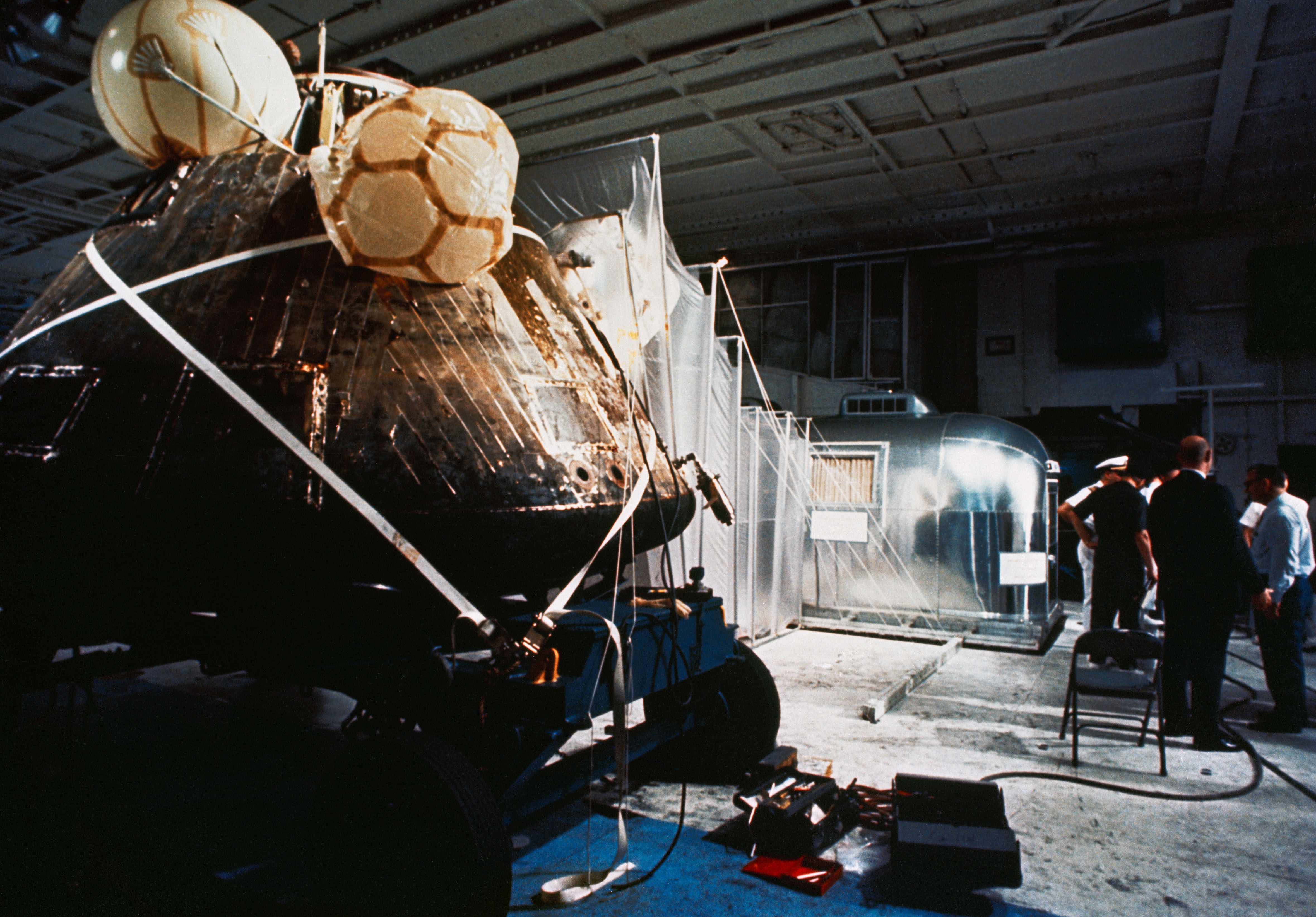 Apollo 11 mission: CM Columbia and Mobile Quarantine Facility on board USS Hornet CV-12. Transfer of astronauts from CSM-107 to Mobile Quarantine Facility trough a plastic foil-covered tunnel.